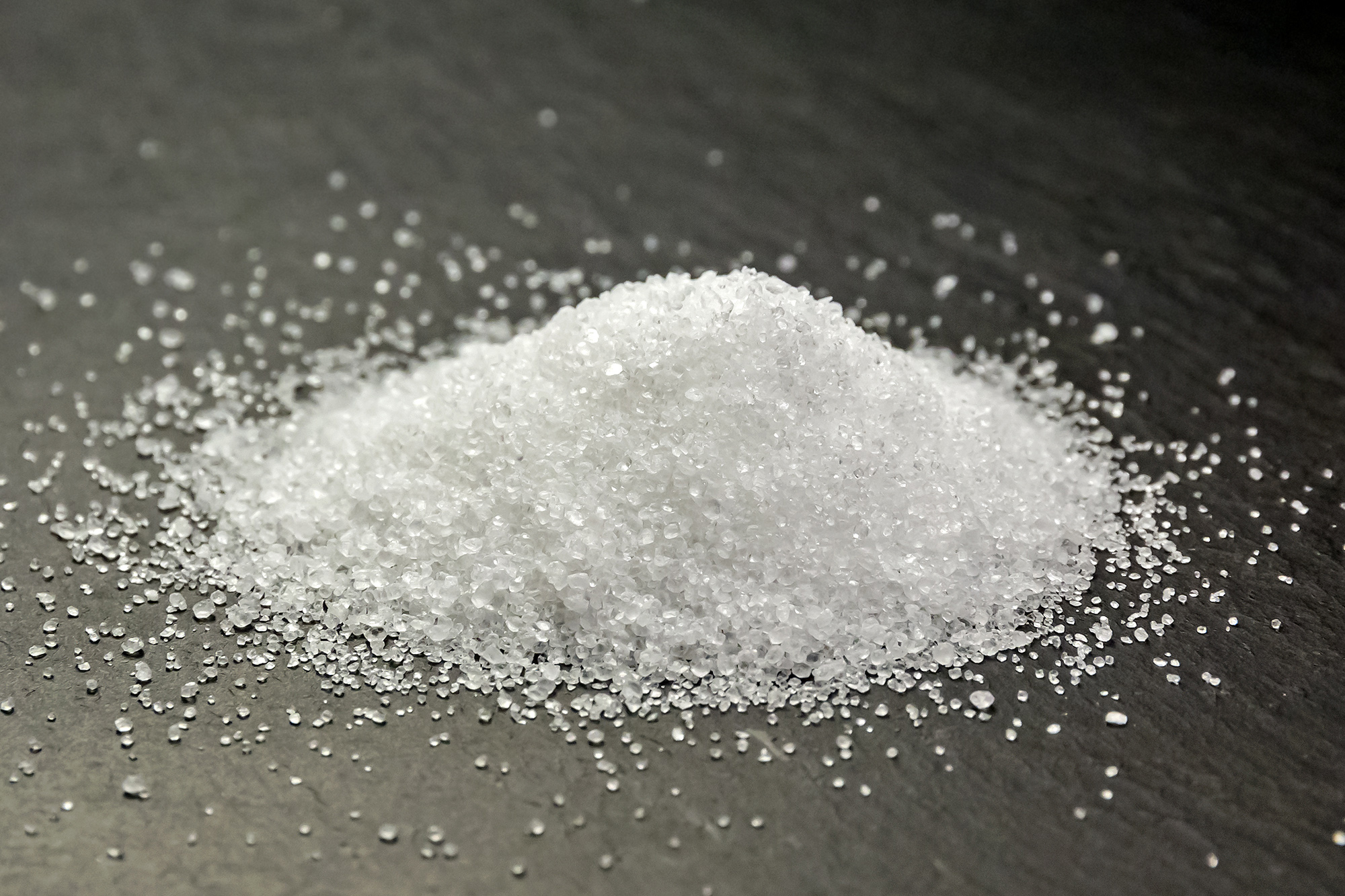 grainy Erythritol